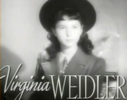 Cropped screenshot of Virginia Weidler from the trailer for the film The Women.